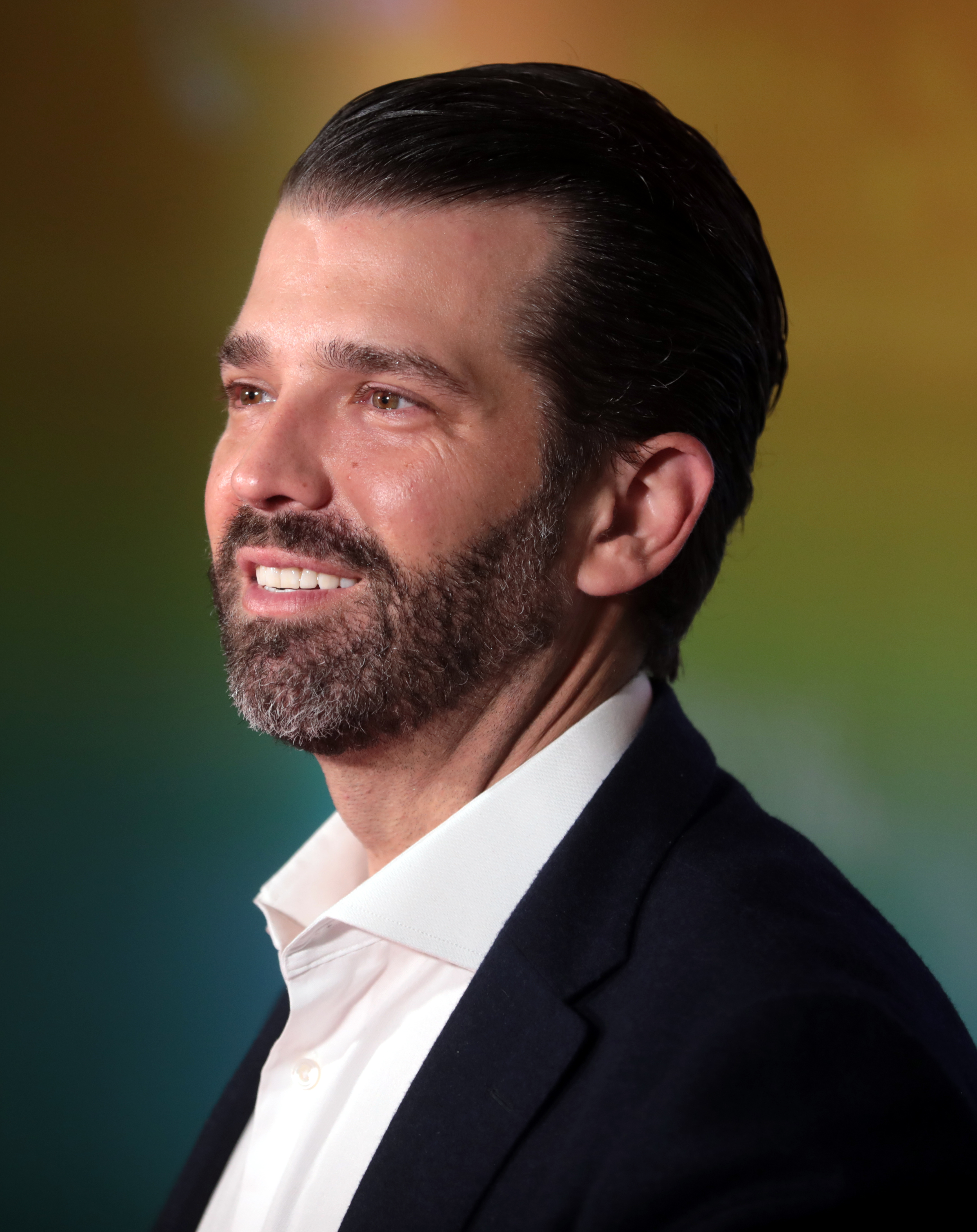 Donald Trump Jr. speaking at an event in West Palm Beach, Florida.